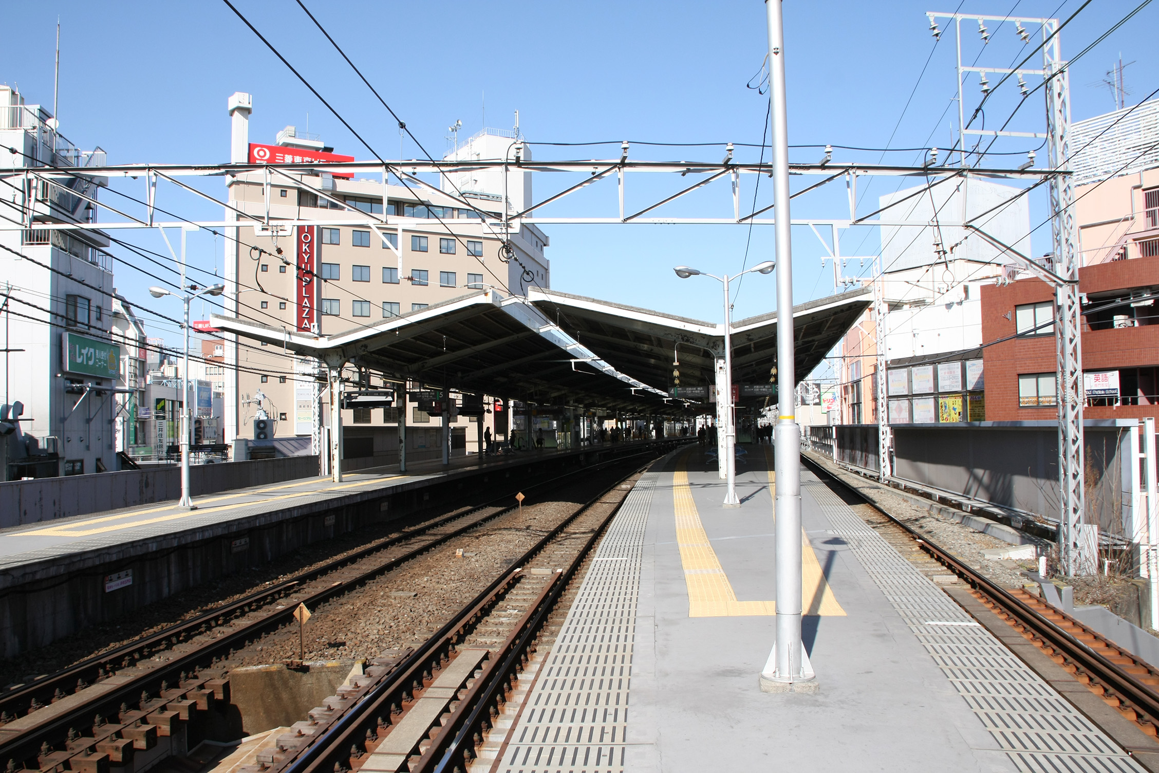 Jiyūgaoka Station Platform No.3-No.6